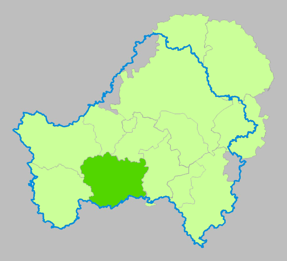 Starodubsky uezd location on the map of Bryansk gubernia